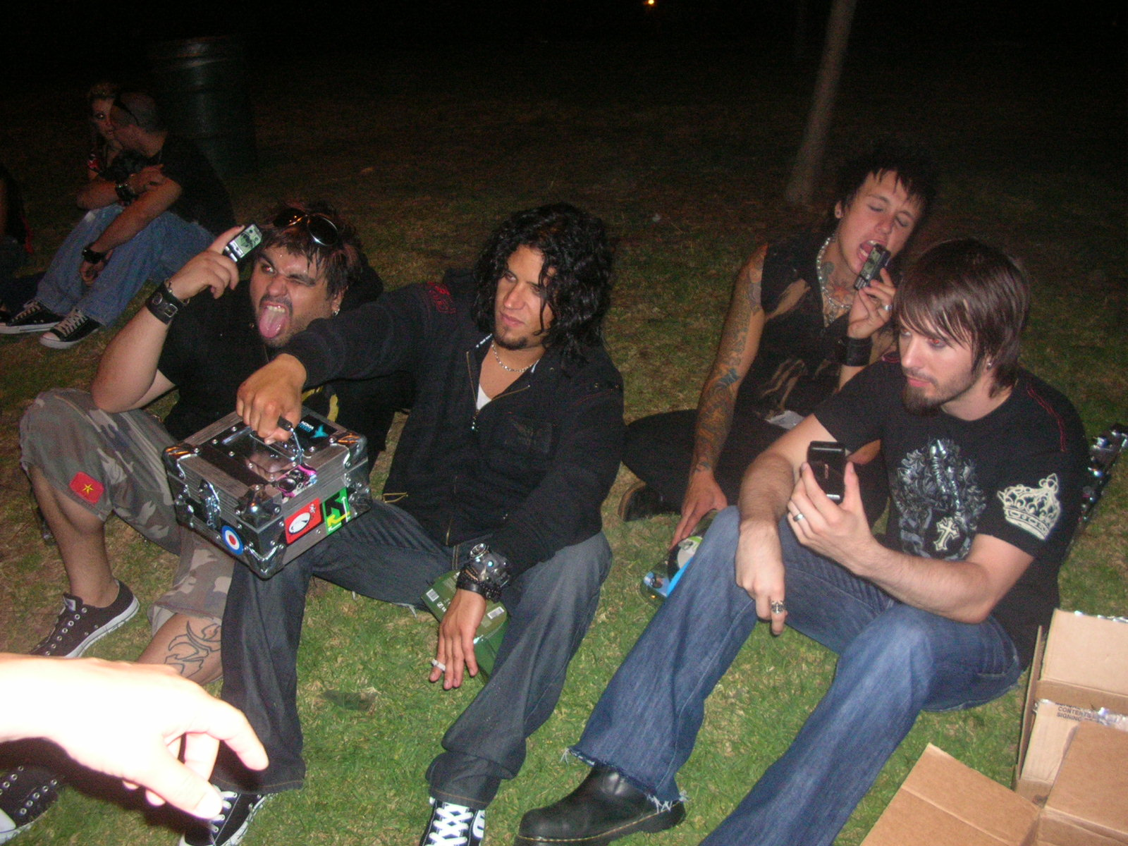 bandmembers of Papa Roach (left to right: Dave Buckner, Tobin Esperance, Jacoby Shaddix, Jerry Horton